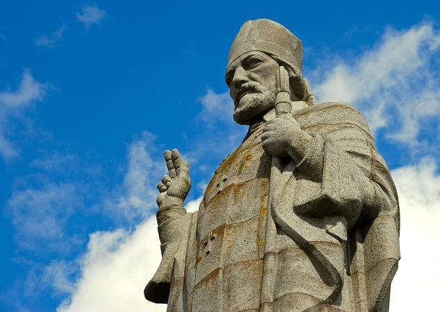 Statue of St Patrick near Saul (2). See 283222. Another look at St Patrick but in much better light.